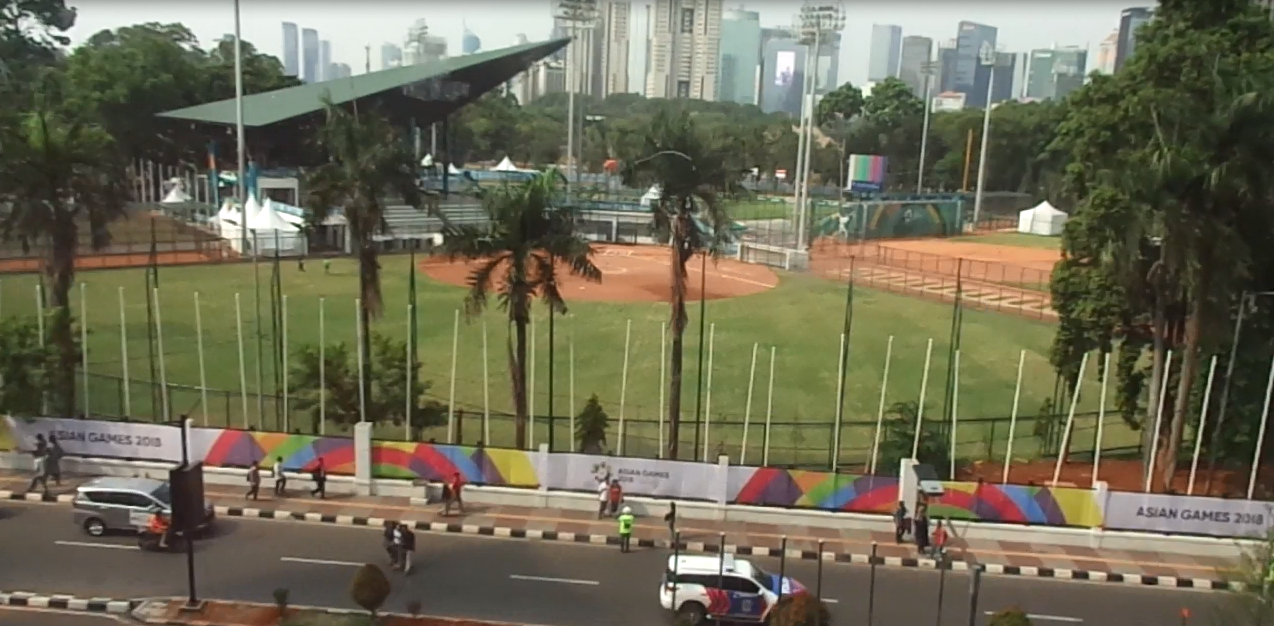 Gelora Bung Karno's Softball Stadium with picture taken from FX Sudirman, a shopping mall across the street.